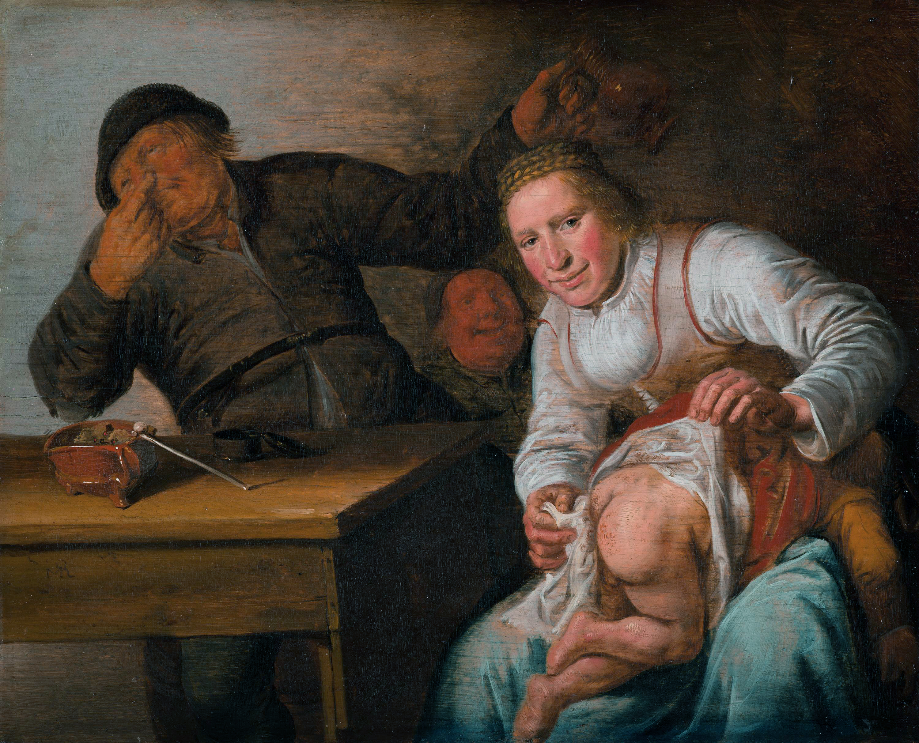 Smell, 1637, oil on panel. Part of the series The Five Senses